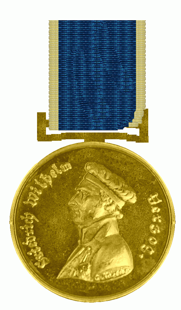 Waterloomedal of the Dichy of Brunswick